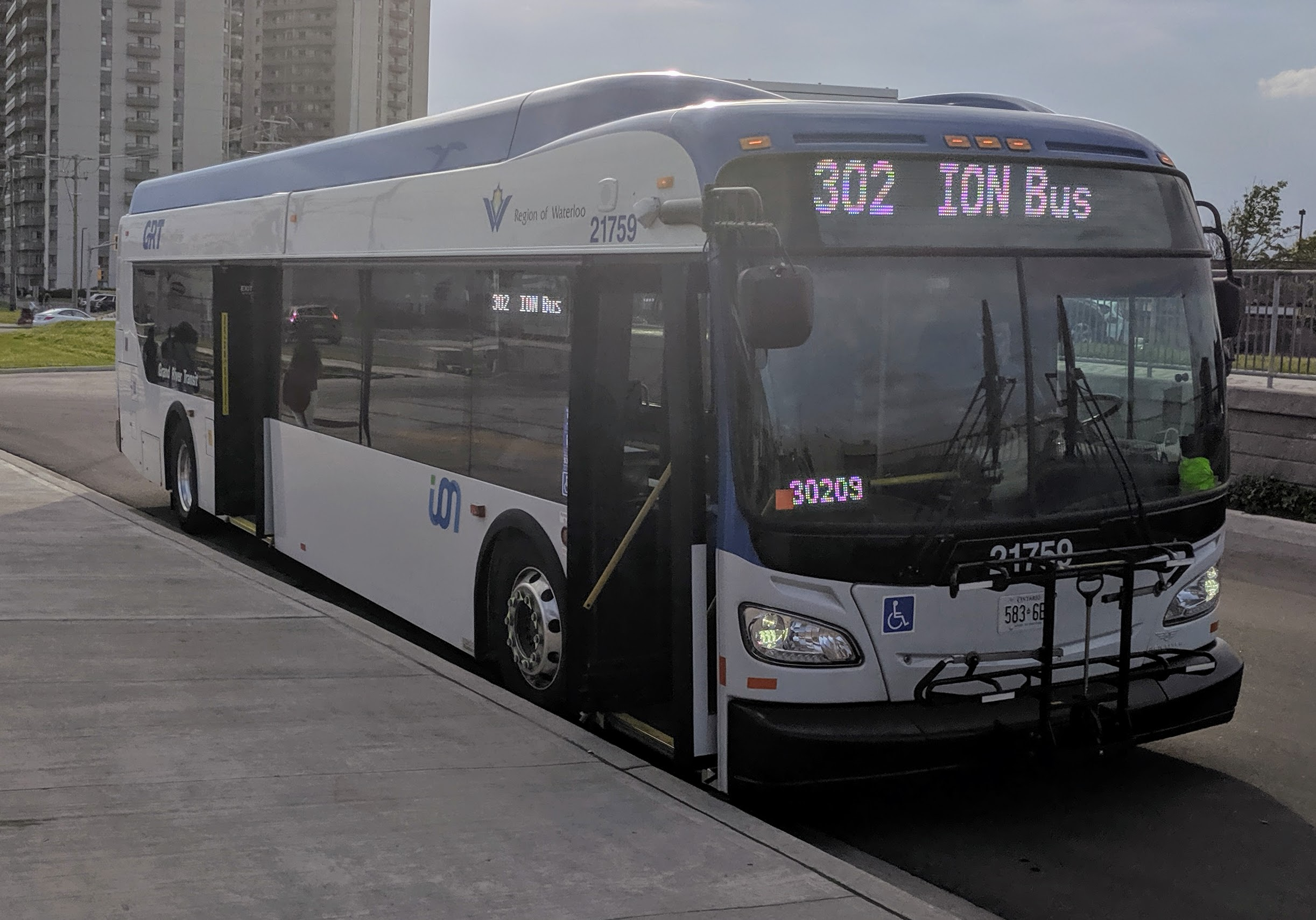 Grand River Transit 2017 New Flyer XD40 #21759 in Ion livery on route 302. Kingsway Drive, Kitchener.